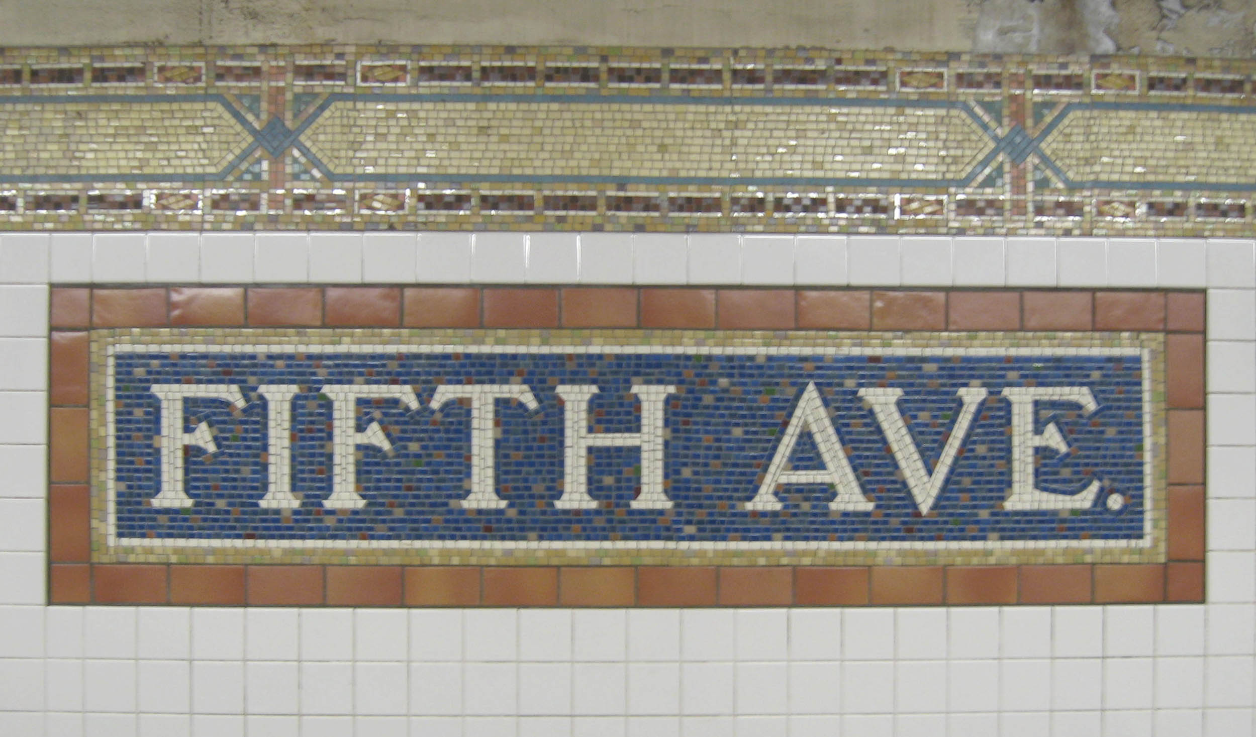 Looking south at station identification mosaic of Fifth Avenue (BMT Broadway Line) northbound platform